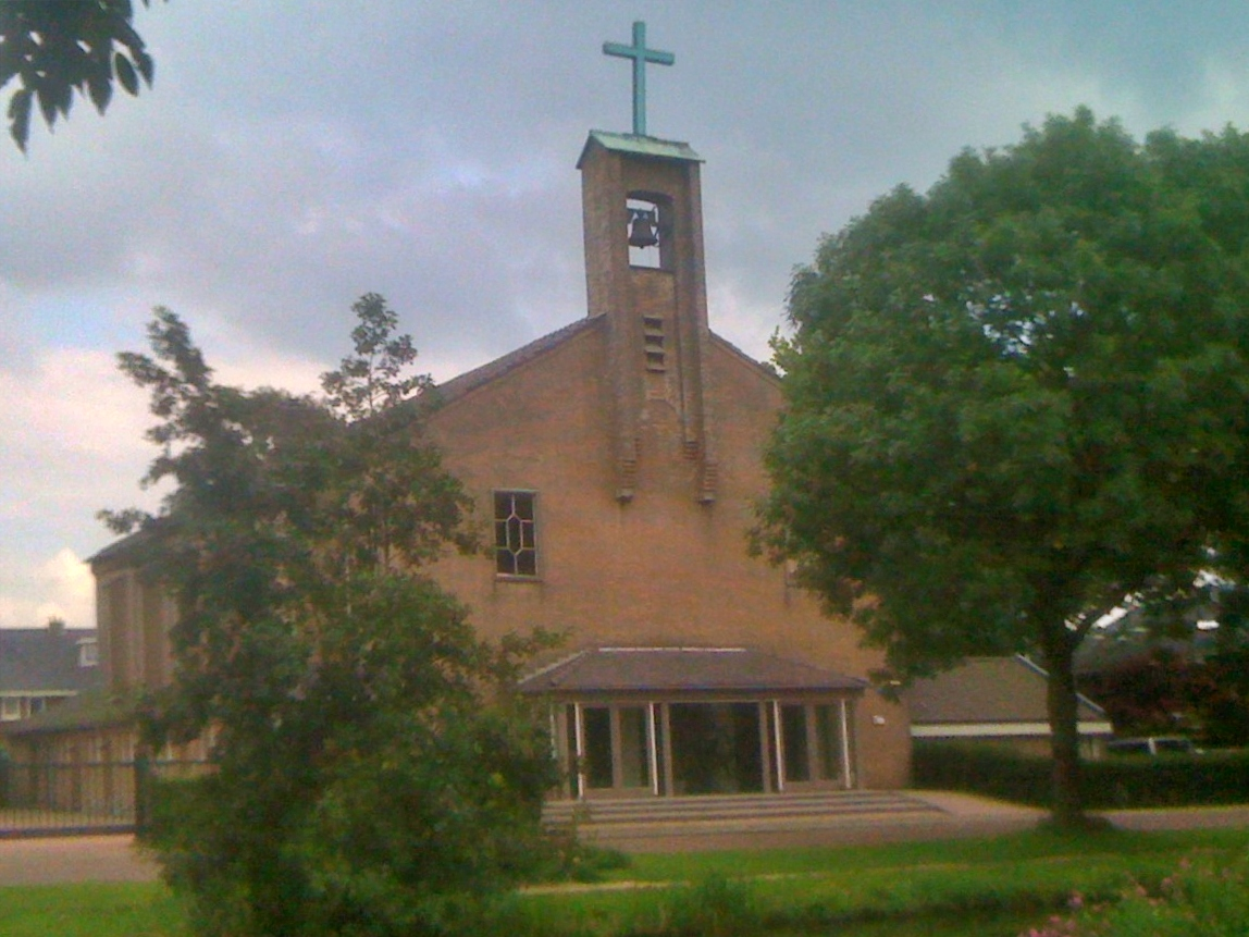 Oosterkerk (Eastchurch) in Sneek.